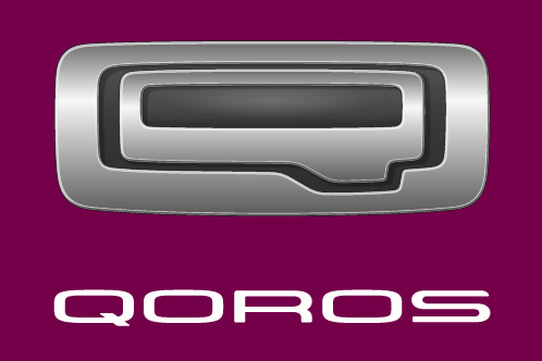 QOROS logo